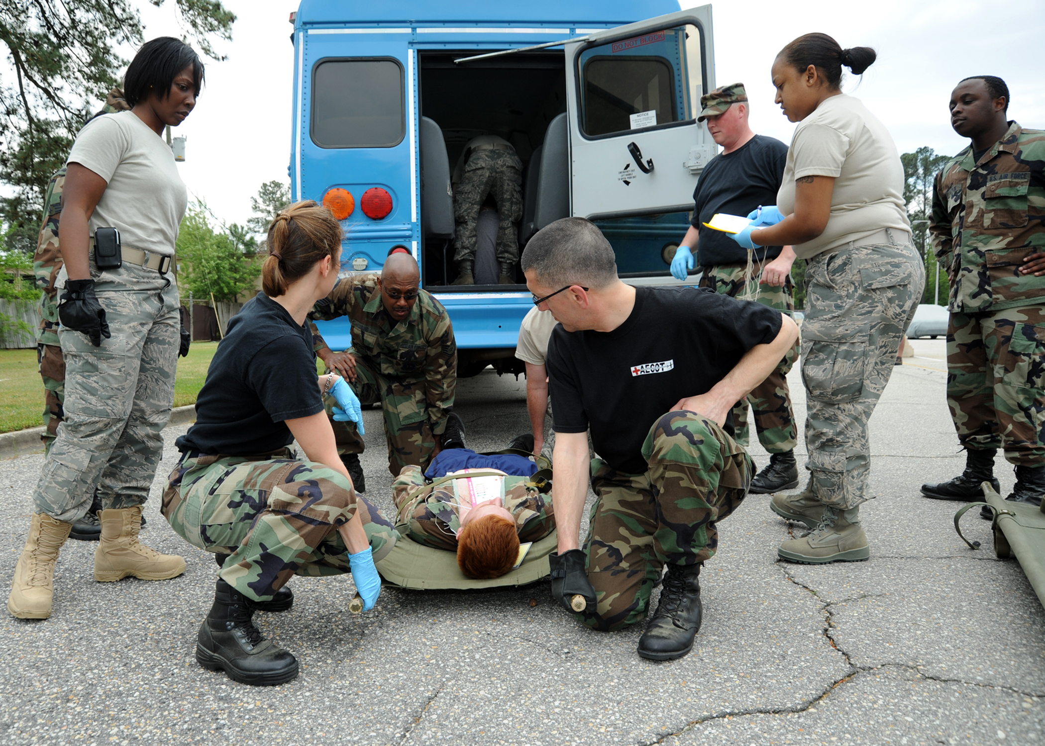 The 440th Airlift Wing Medical Squadron removes a crash victim from a bus during a mass casualty exercise at Pope Air Force Base, N.C., April 17, 2010. During April’s alternate UTA the medical squadron spent the day practicing their readiness skills as they responded to a simulated bus crash filled with cadets from the Fayetteville based Civil Air Patrol Composite Squadron. The exercise provided a great volunteer opportunity for the cadets and an even greater opportunity for the Medical Squadron as this was the first time they had volunteers from an outside source to play casualties for an exercise.